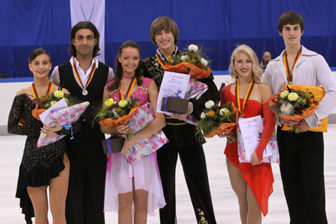 2009 Junior Grand Prix in Dresden (Pokal der Blauen Schwerter) - from left to right: Lorenza Alessandrini, Simone Vaturi, Ekaterina Pushkash, Jonathan Guerreiro, Piper Gilles and Zachary Donohue